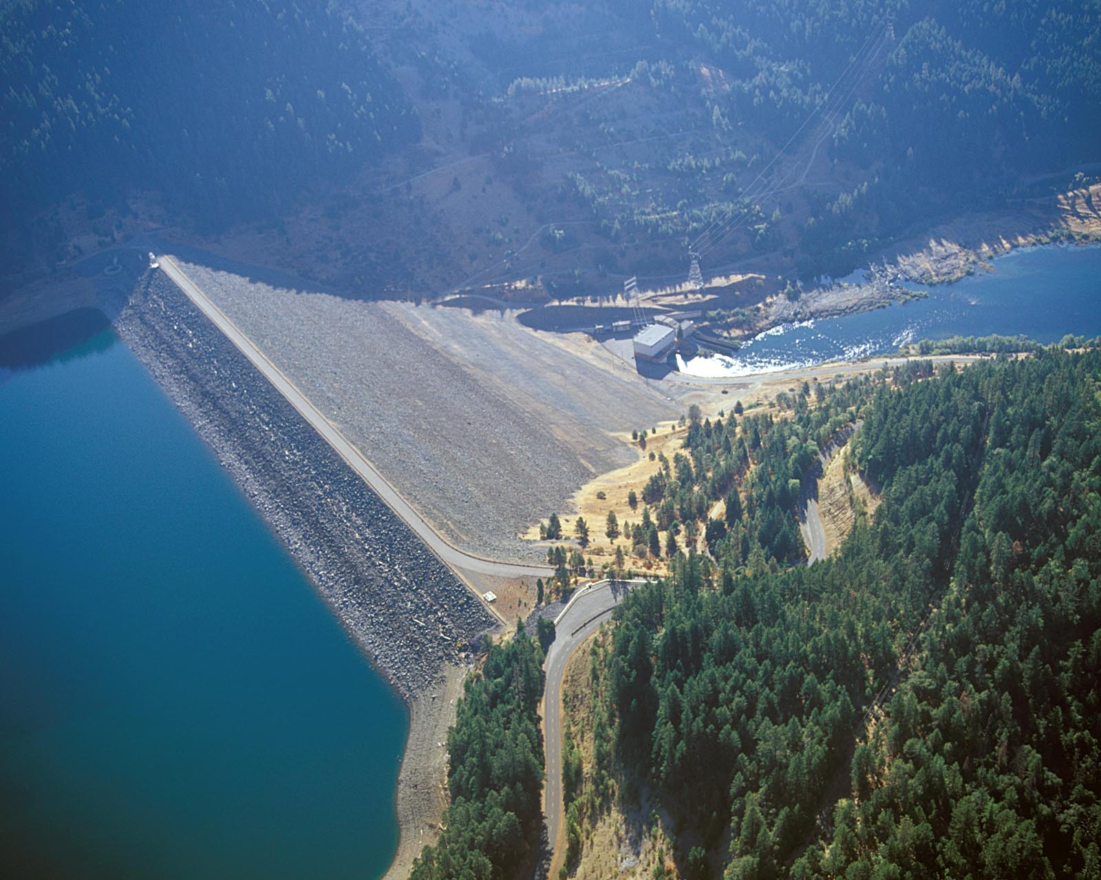 Trinity Dam in California, 2004.